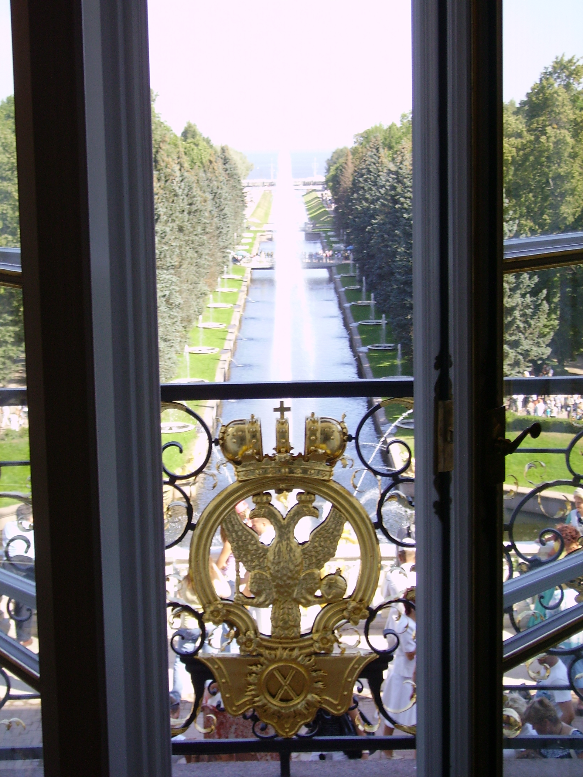 Sea Canal of Peterhof